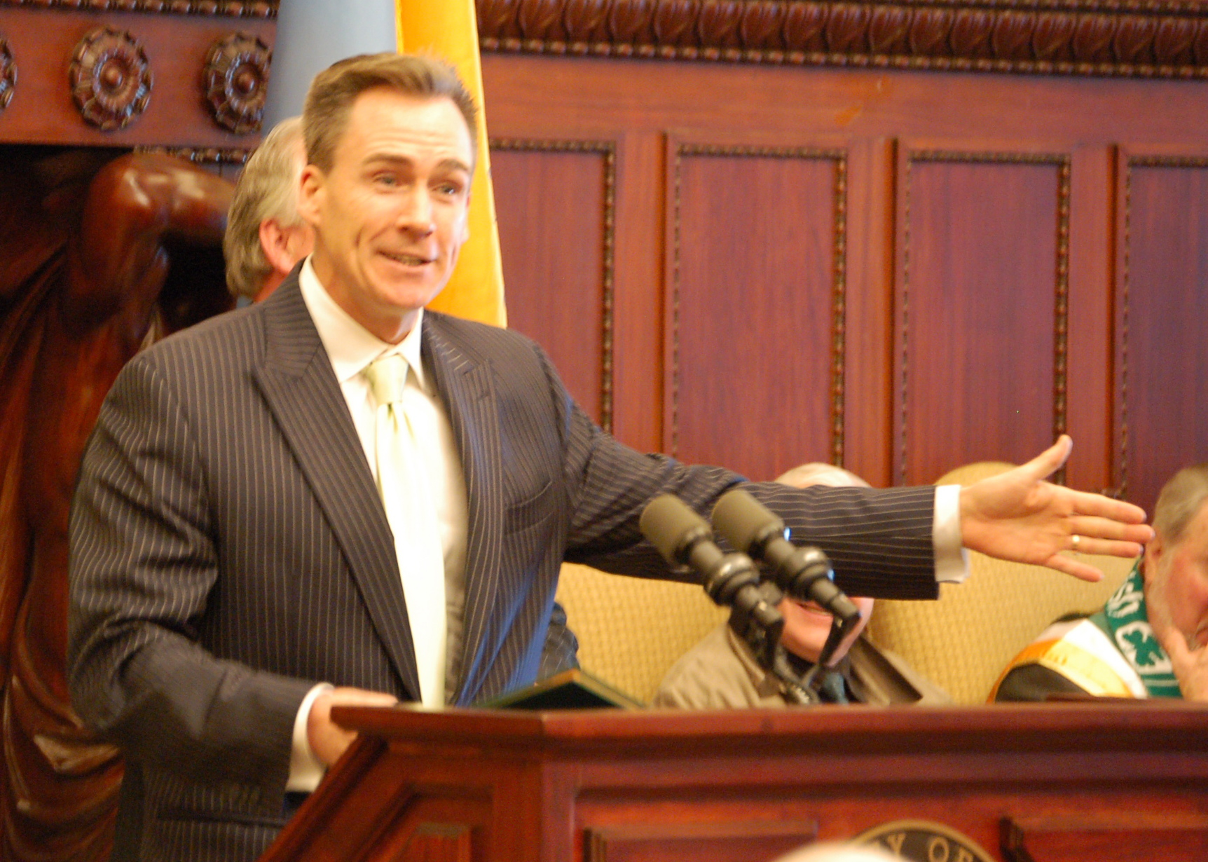 "Pennsylvania State Senator Mike Stack presents a proclamation recognizing the Irish in Philadelphia that will be read into the legislative record." Photo courtesy of Irish Philadelphia Photo Essays, via Flickr. This file has an extracted image: File:Mike Stack 2009 CROPPED.jpg.